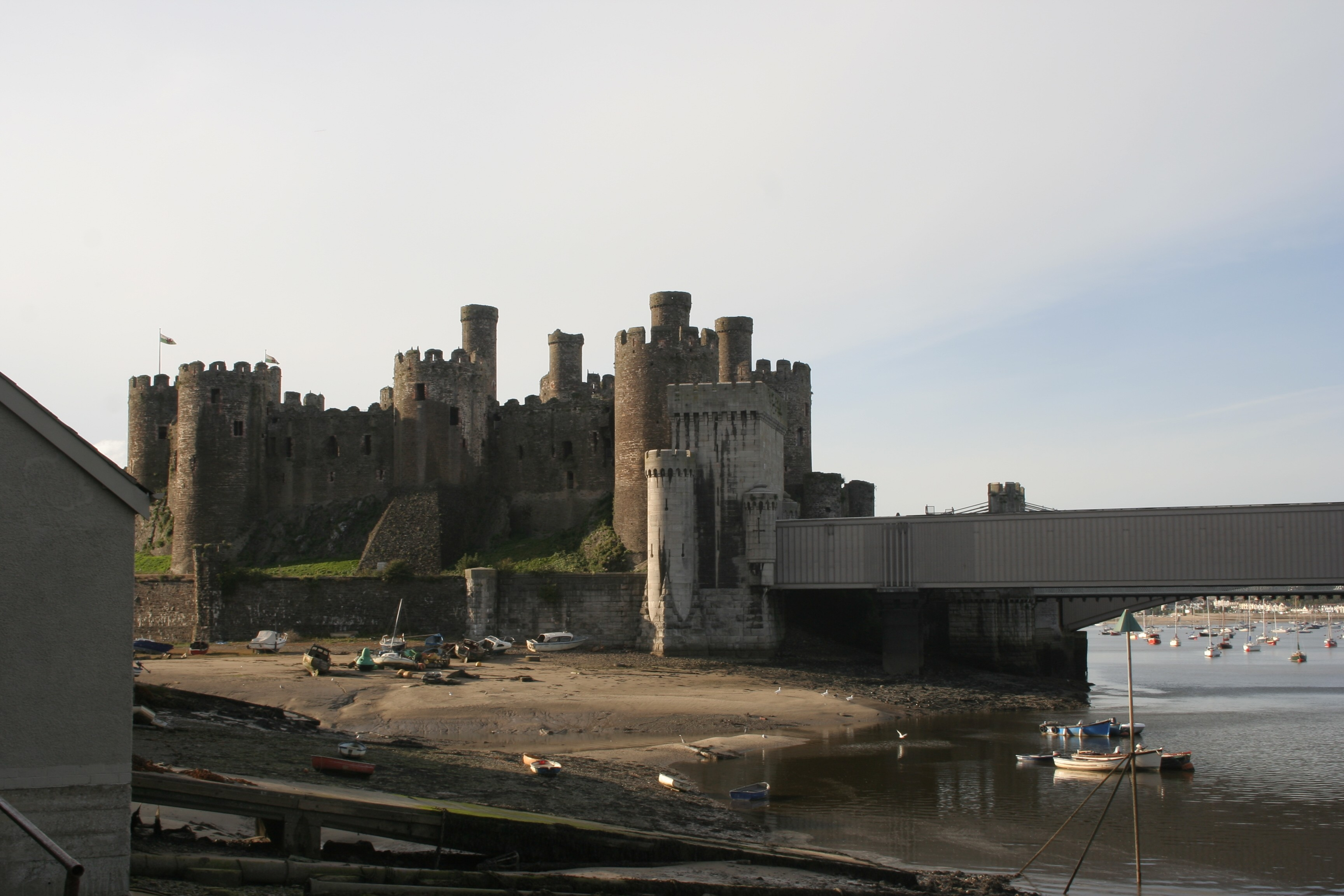 Conwy Castle